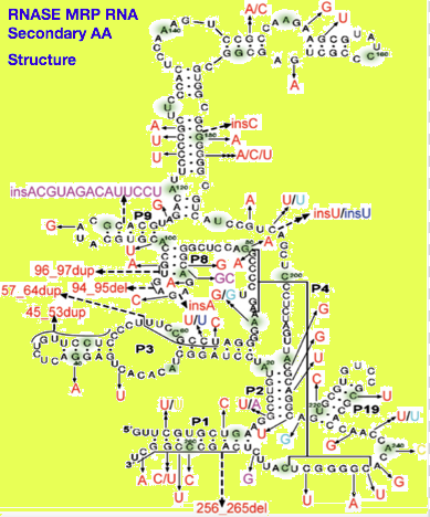 2nd AA Structure